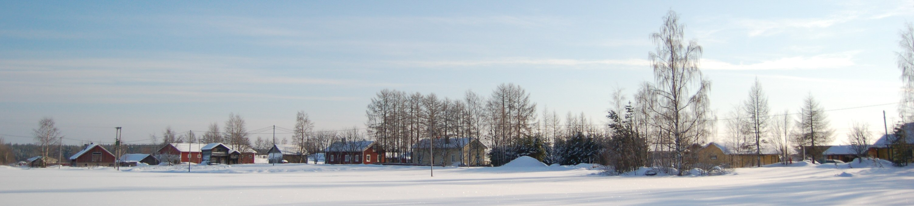 Overview on the Karahka village in Ylikiiminki municipality, Finland.